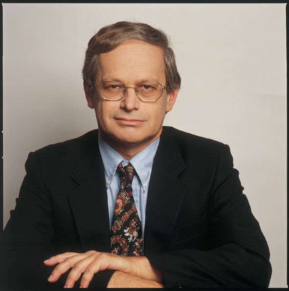 Yaron Silberberg, Professor and Dean, Faculty of Physics, Department of Physics of Complex Systems, Weizmann Institute of Science